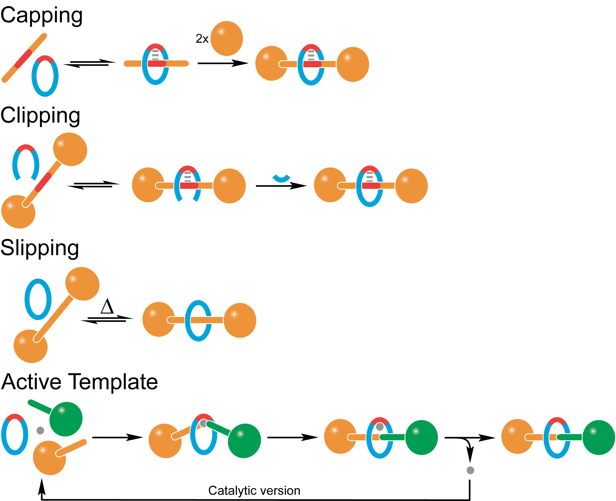 Strategies towards the preparation of [2]rotaxanes.